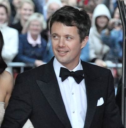 Wedding of Victoria, Crown Princess of Sweden, and Daniel Westling; Arrival of members for the Gouvernment and Swedish and foreign guests of hounour to the Riksdag's Gala Performance at Konserthuset